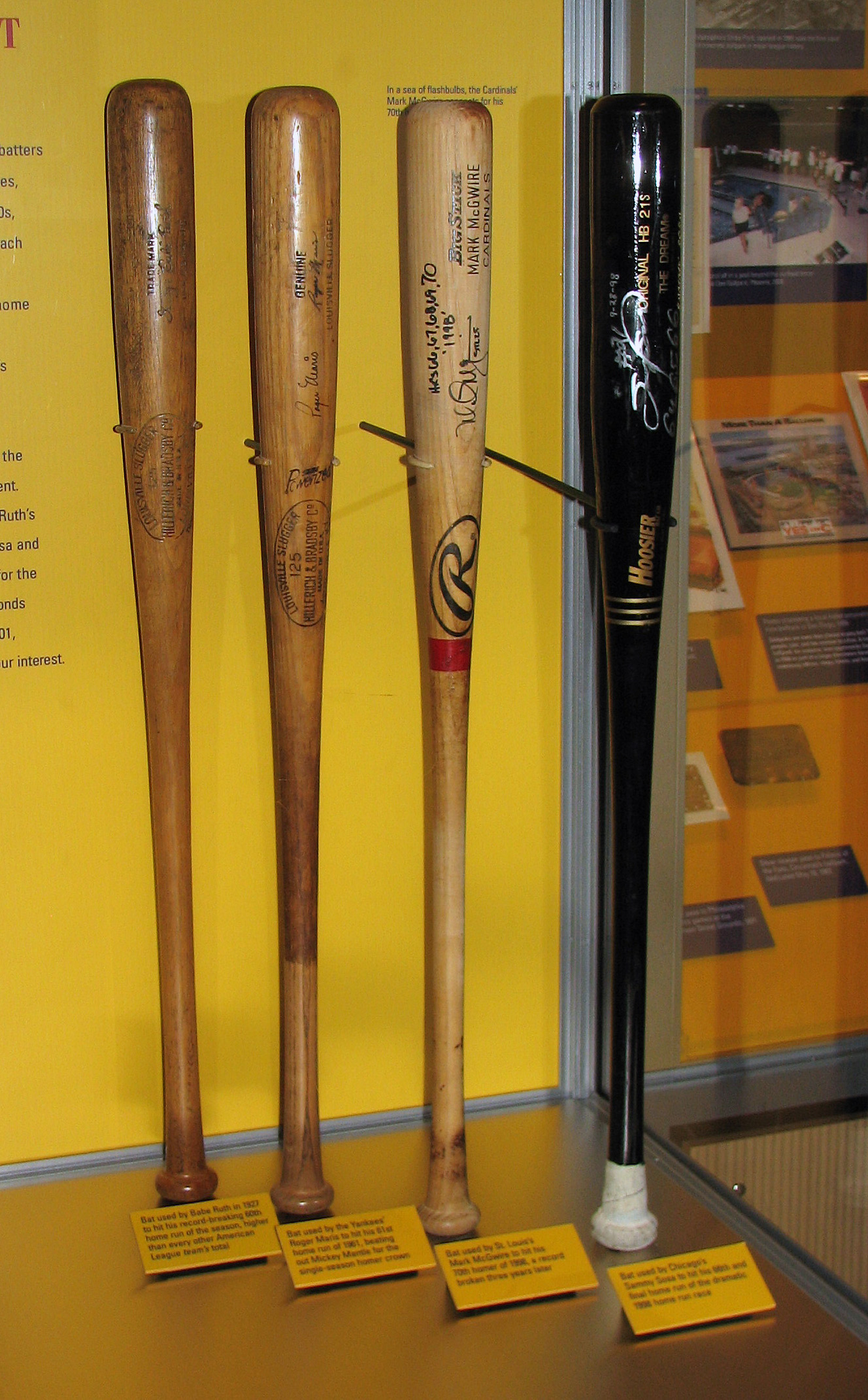 From left to right, the bats used to hit Babe Ruth's 60th homer in 1927, Roger Maris' 61st in 1961 and Mark McGwire's 70 and Sammy Sosa's 66th in 1998. Attribution: Dave Hogg